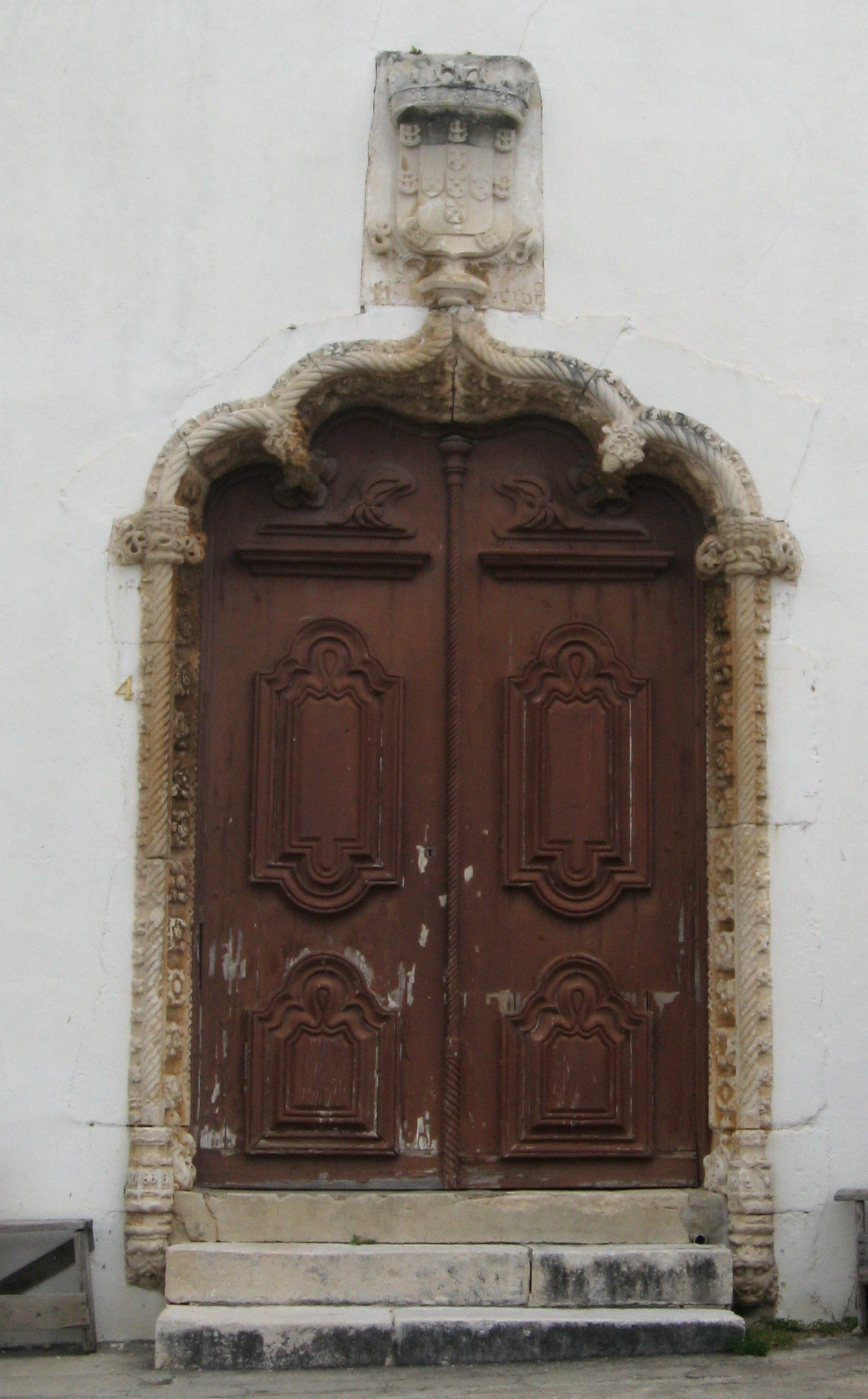 Alcobaça, Portugal, Mosteiro de Alcobaça, Coutos de Alcobaça,former county of the Abbey, Maiorga is one of the 13 cities of the coutos, Church of Espitos Santo, Manueline door, 16th century